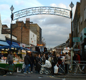 East Street market, Walworth, London. Taken by C Ford 15/11/03.